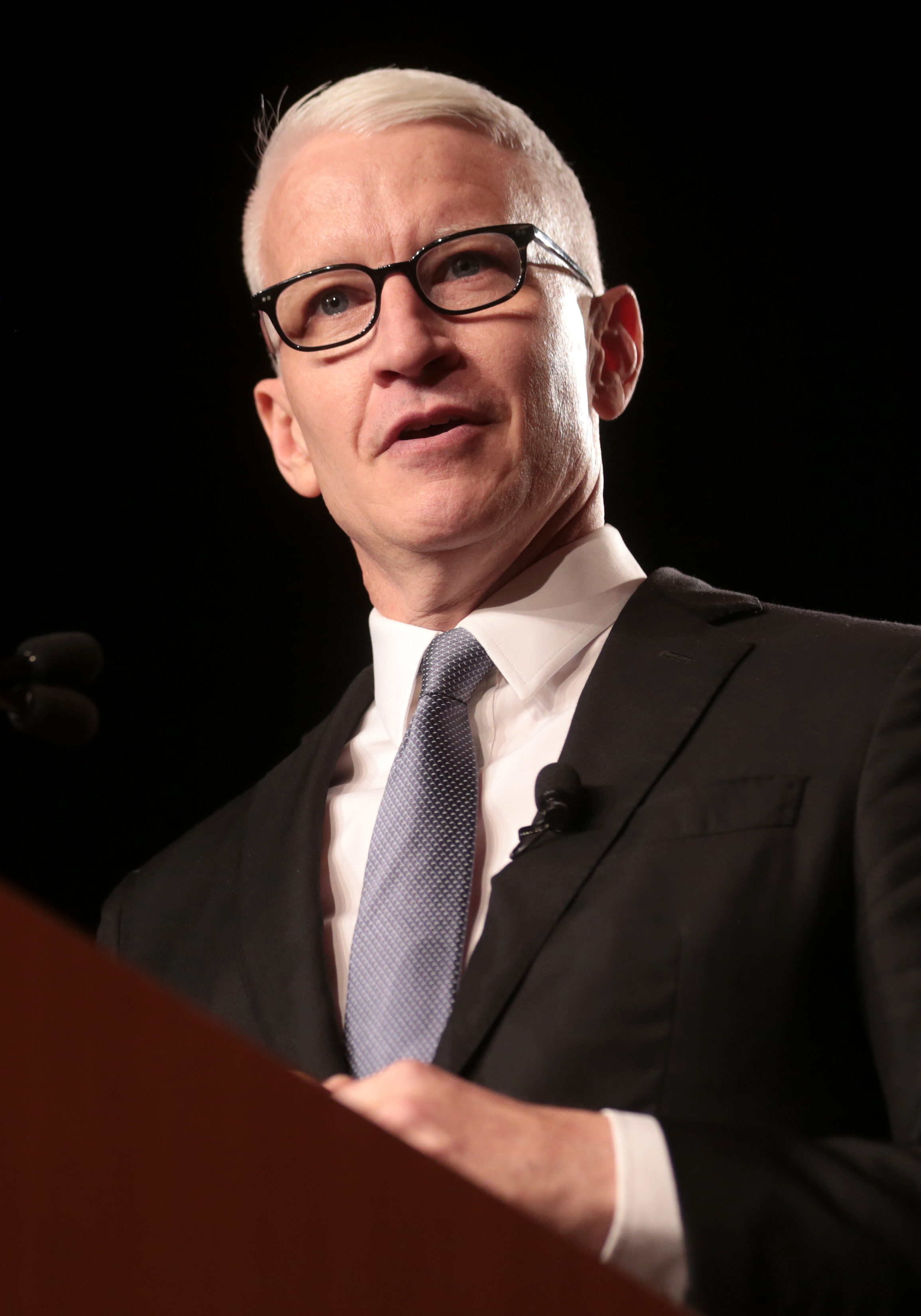 Anderson Cooper speaking at an event in Phoenix, Arizona.